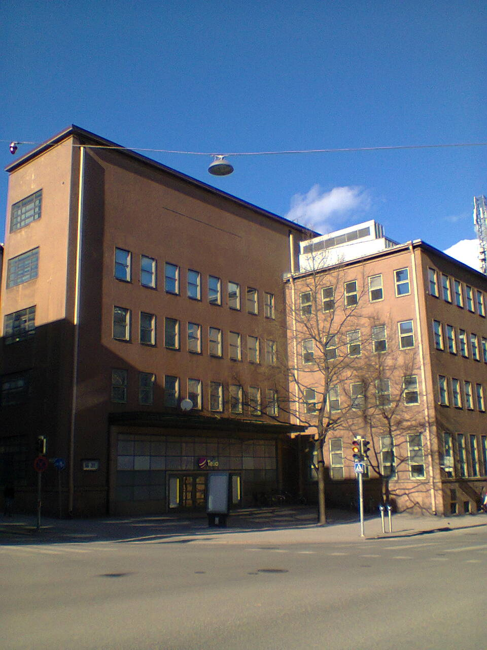 Turku's postitalo (post building) (1932) from south. The building is in the corner of Eerikinkatu and Humalistonkatu.